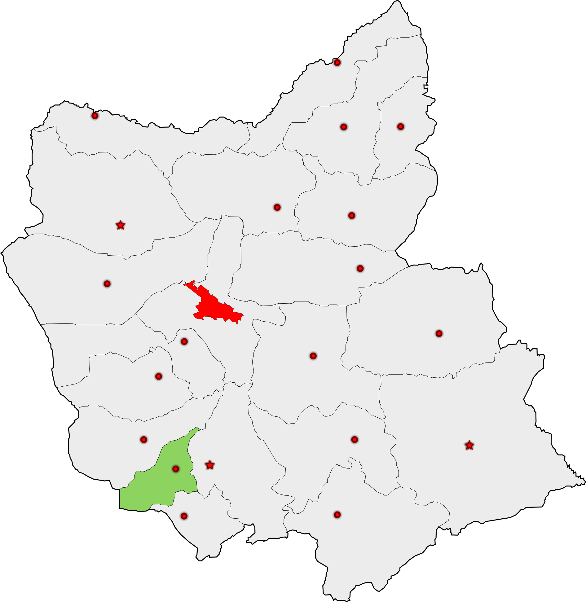 East Azarbaijan counties (shahrestan), divisions